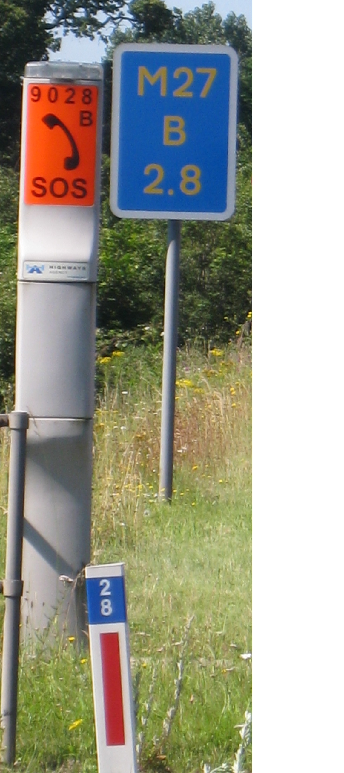 An English Driver Location Sign, emergency telephone and location marker sign showing how each displays 2.8 km